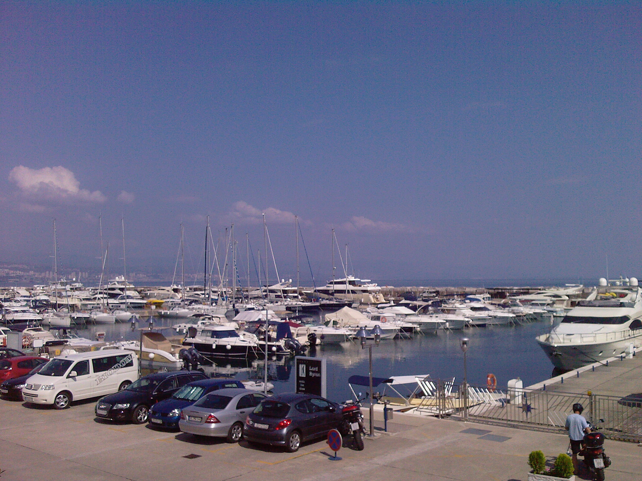 Many different boats in Icici Croatia